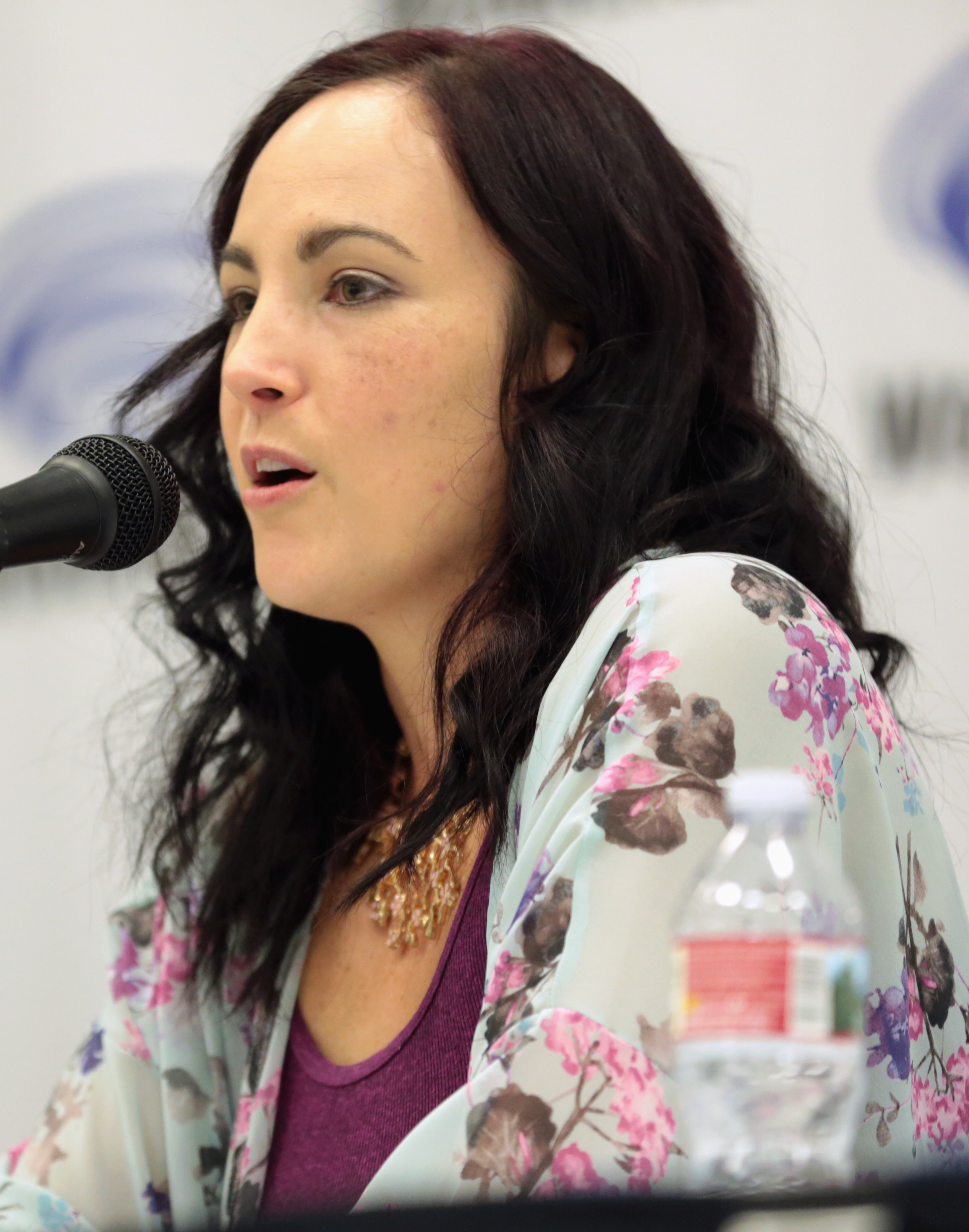 Delilah S. Dawson speaking at the 2017 WonderCon in Anaheim, California.